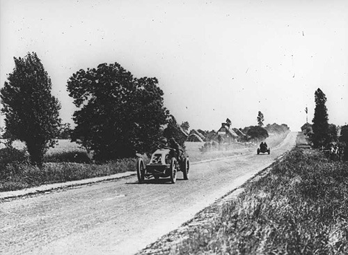 Ferenc Szisz driving the Renault Type AK during 1906 French Grand Prix, ahead of the Hotchkiss of Elliott Shepard.